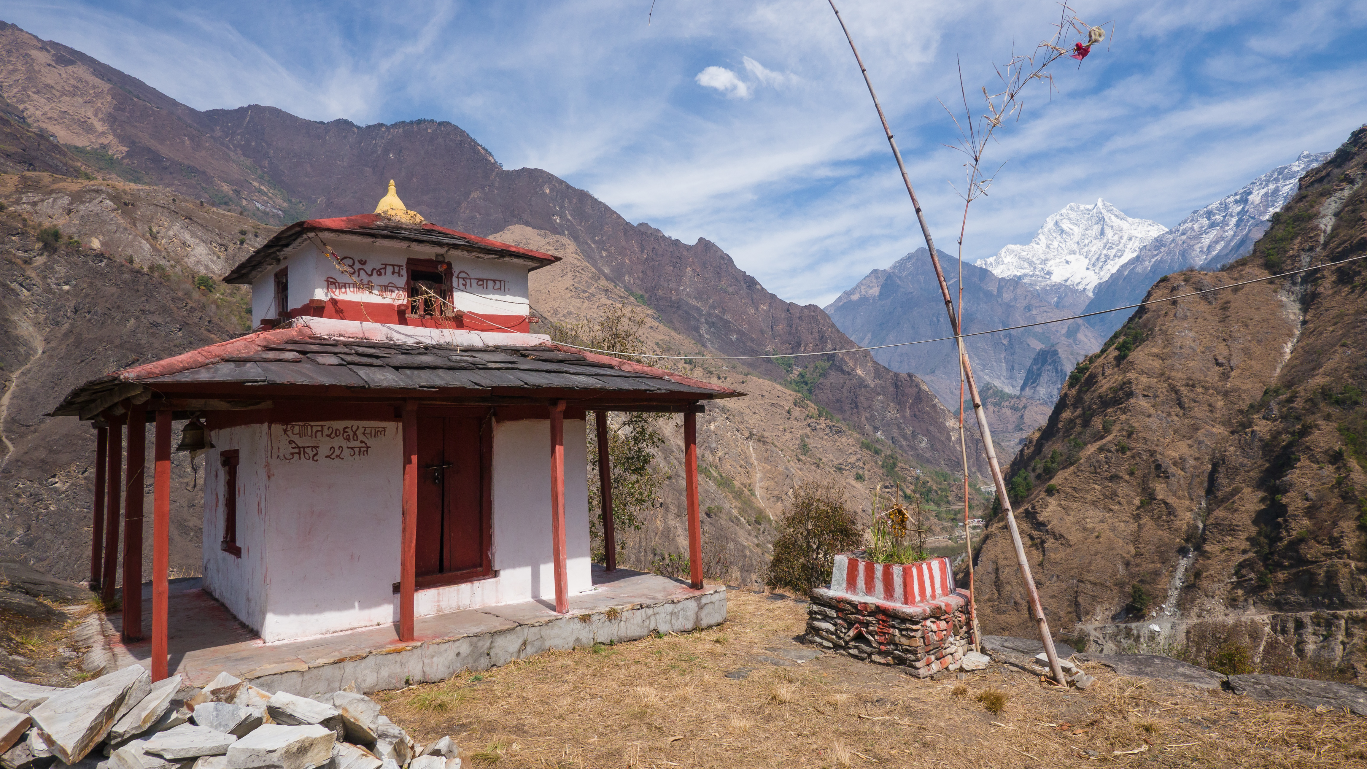 A small temple on the ridge above Ghar Khola, with a superb view of Nilgiri South (6,839m) and the Kali Gandaki valley.